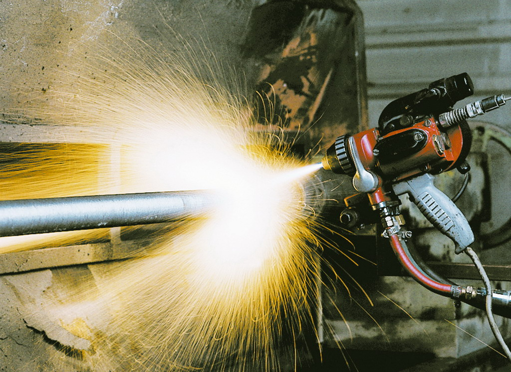 The process of gas-flame thermal spraying of metal on the shaft surface.